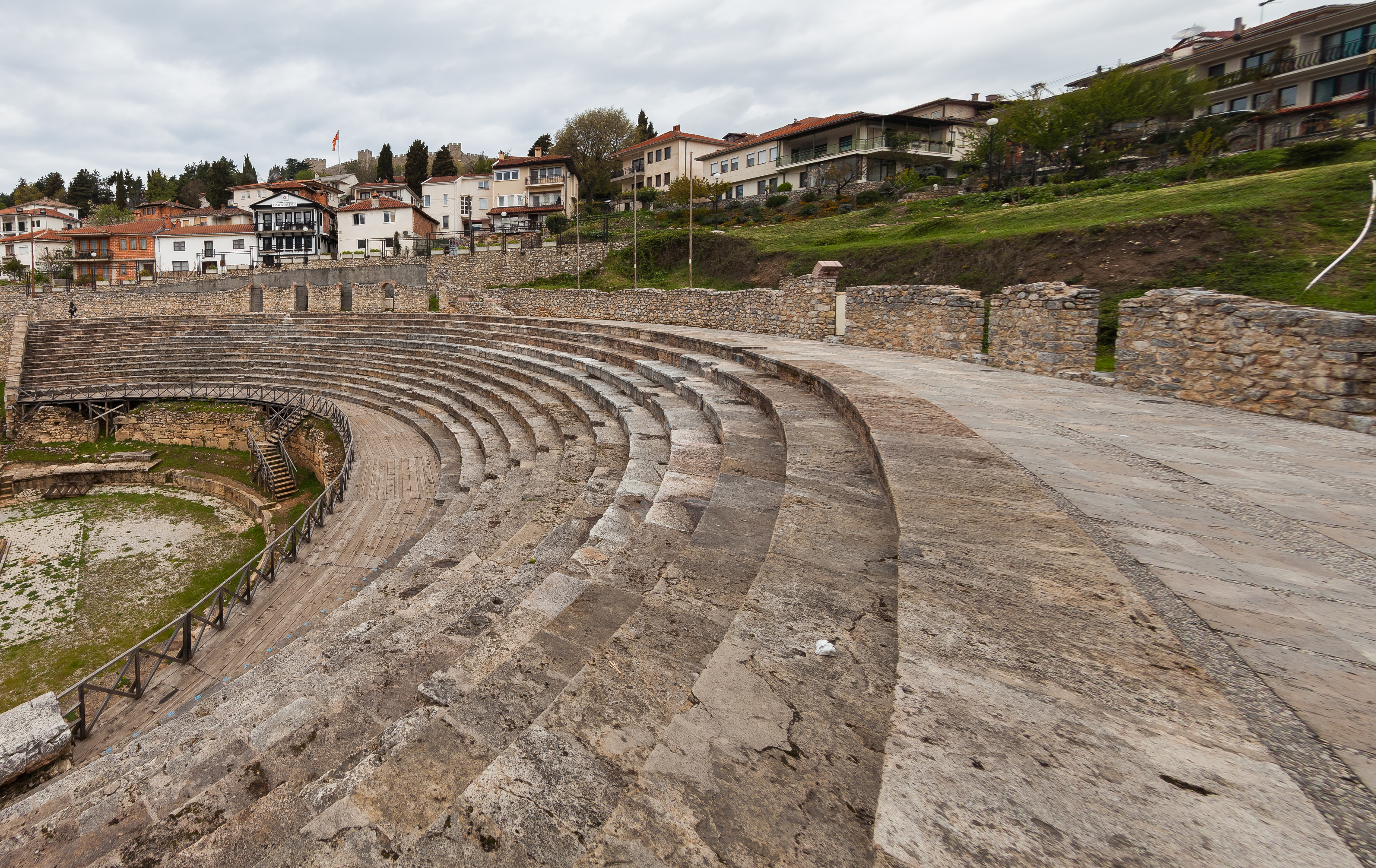 Ancient Greek theatre, Ohrid, Macedonia